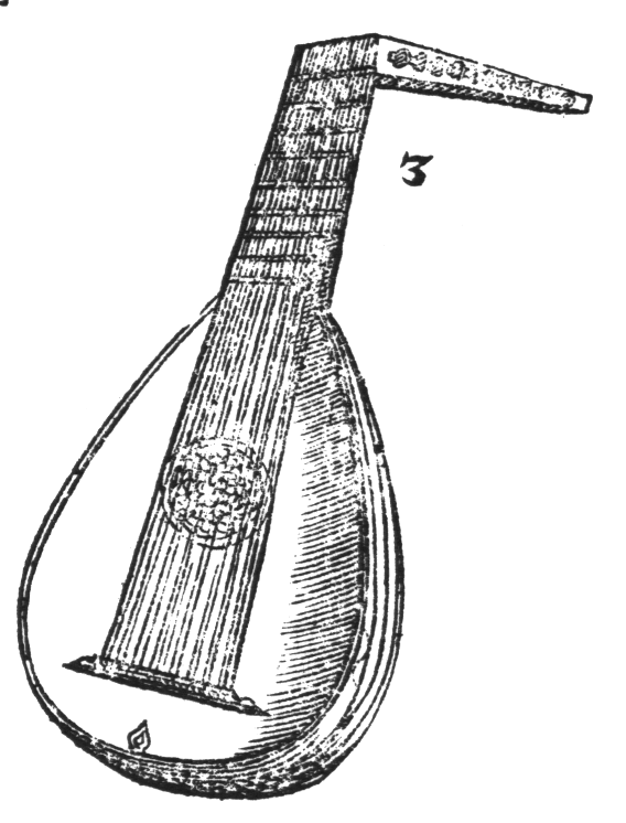 Lute